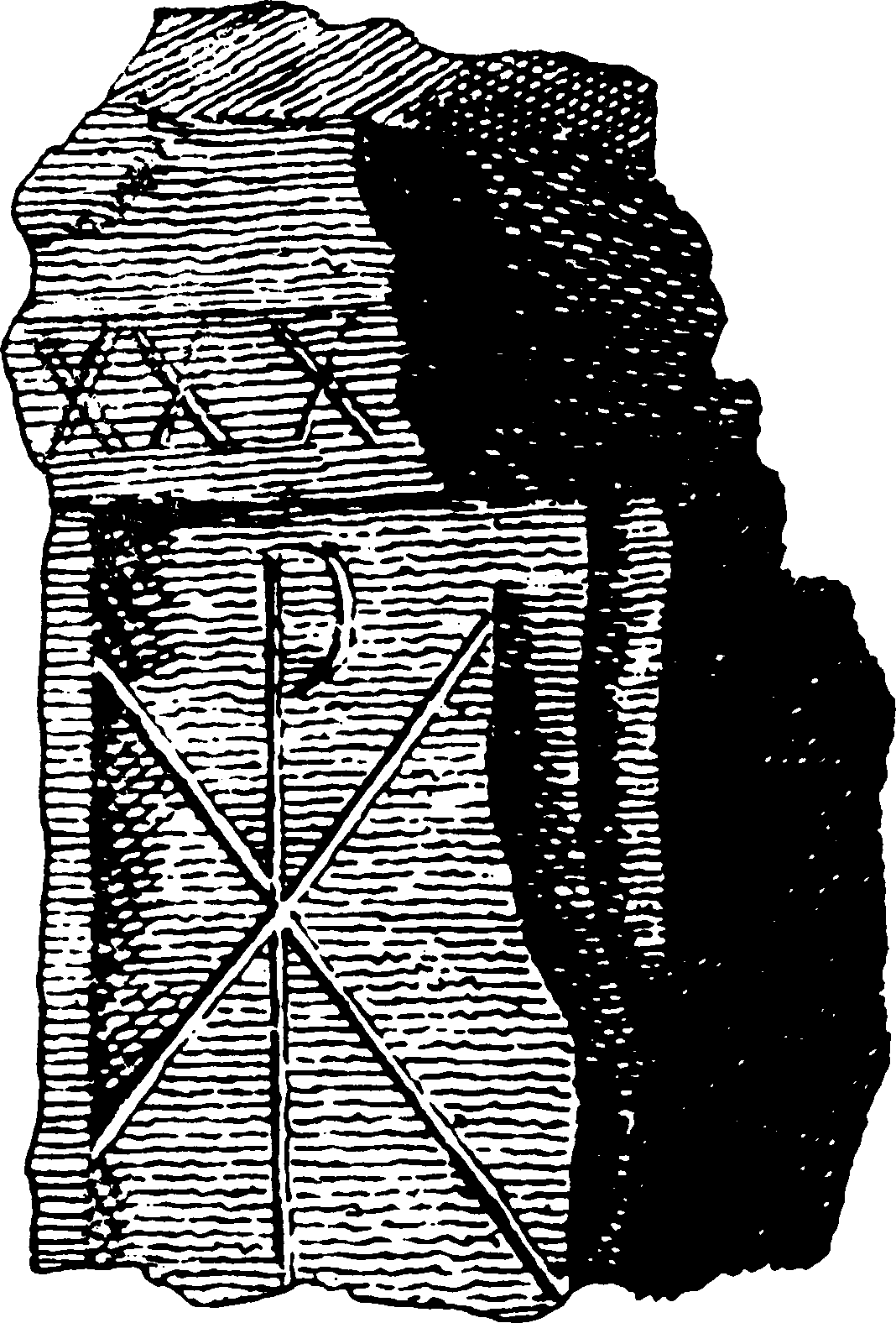 Roman Inscription with Chi-Rho monogram, top left-hand corner of a plaque, presumably sepulchral. Find context at Maryport (now lost).